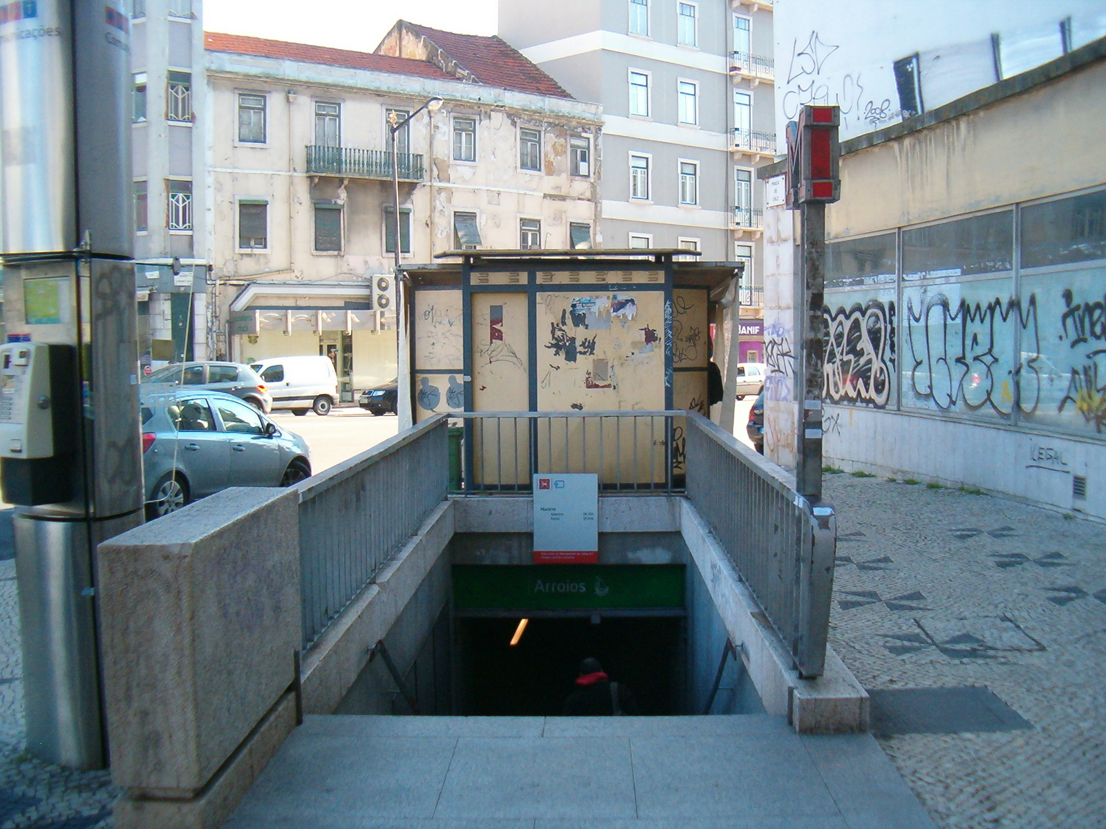 Metro station Arroios (Lisboa)